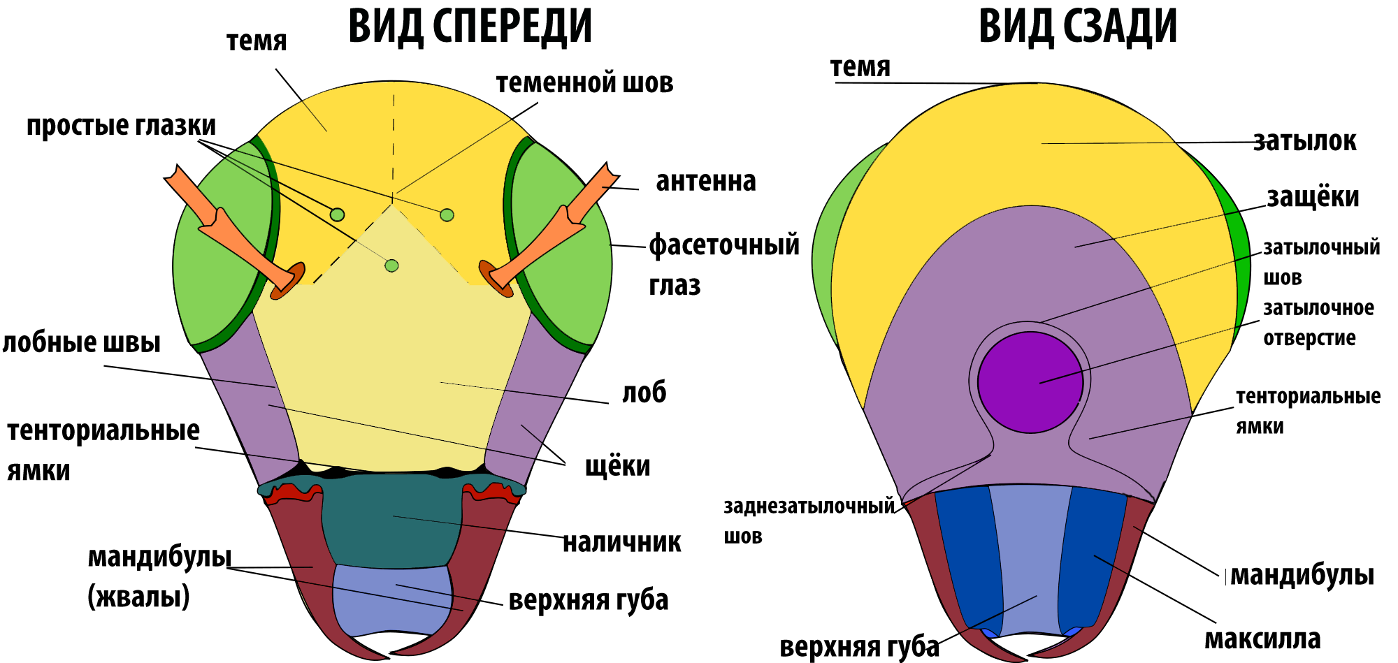 diagram of an insect head, showing front and back